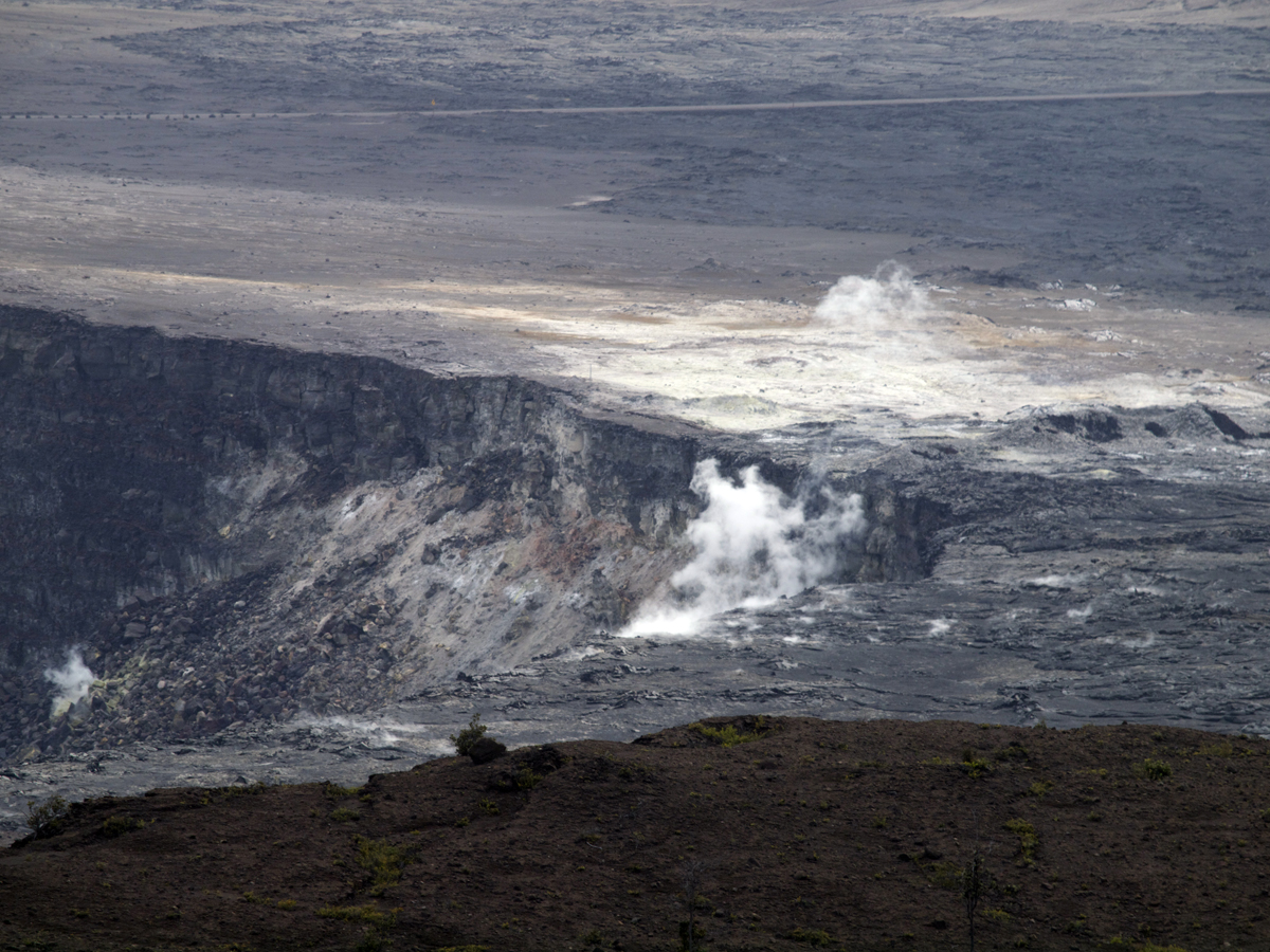 Kilauea Crater